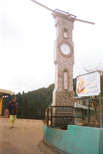 A clock tower stands proud in the town of Lava in northern West Bengal near Kalimpong. Picture clicked by me, Nichalp on December 8, 2004